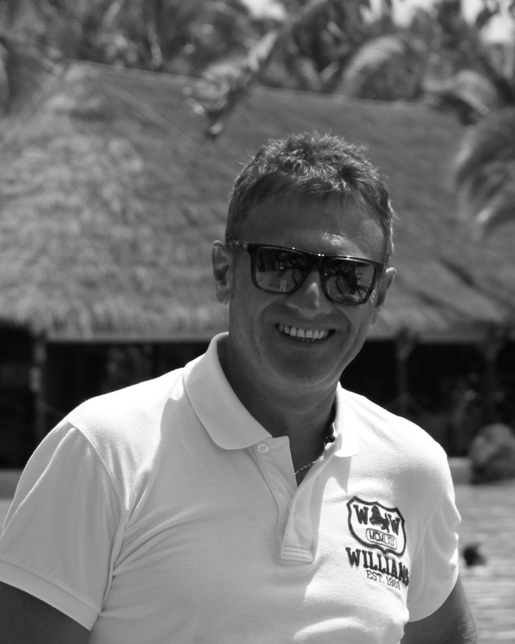 Sandro De Angelis